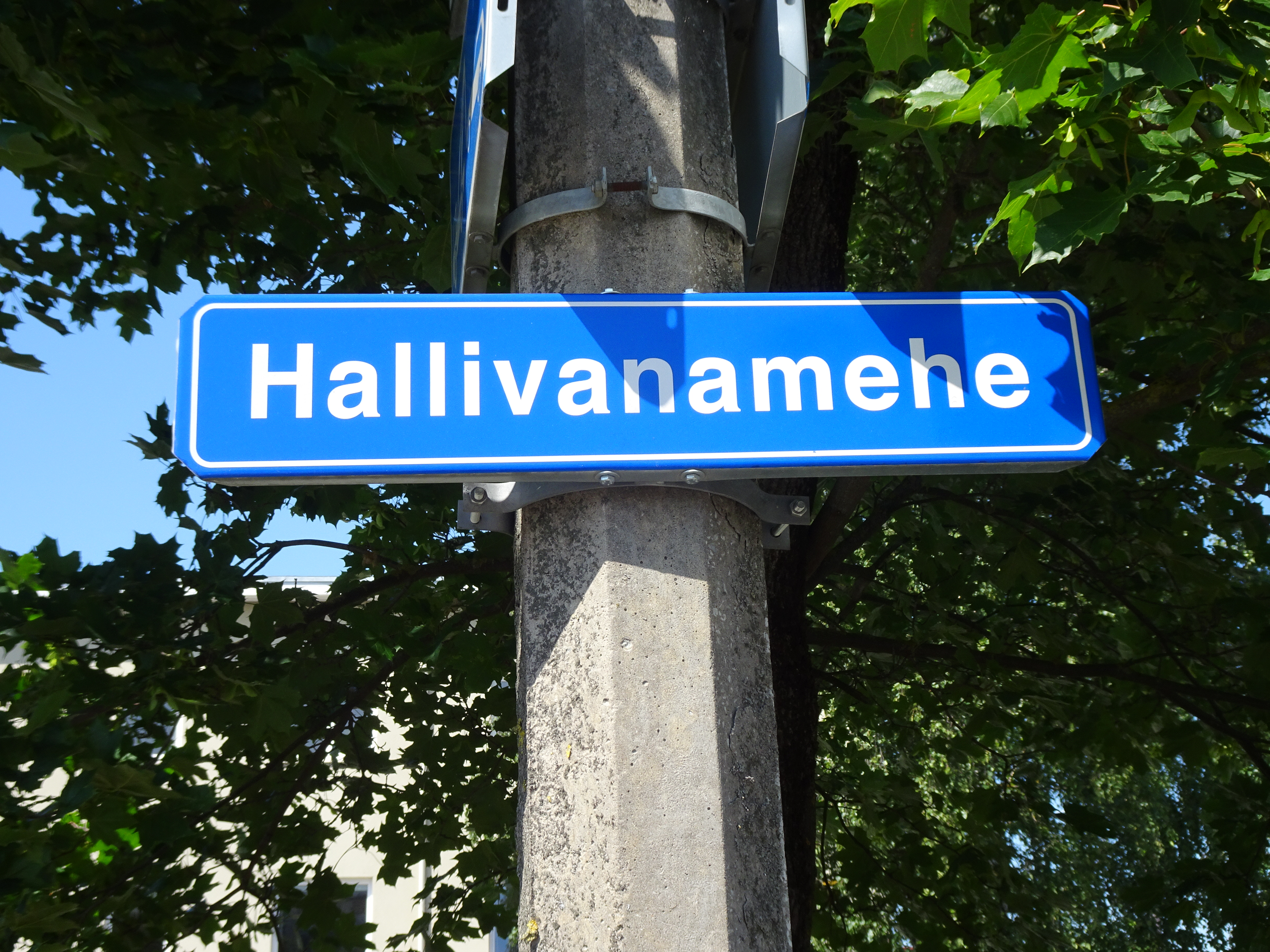 Signboard of Hallivanamehe Street in Tallinn, Estonia